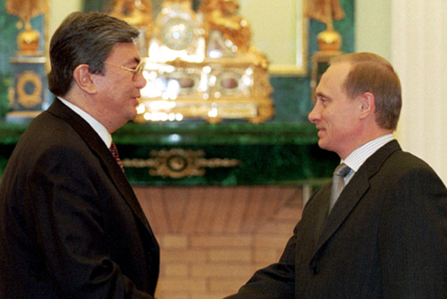 THE KREMLIN, MOSCOW. With Kazakhstan Kasymzhomart Tokayev.